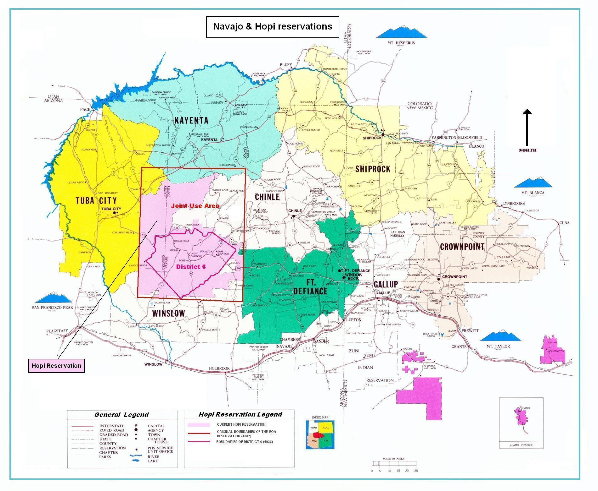 Map of the Hopi reservation in Navajo Nation. The map shows in particular: current boundaries of the Hopi reservation, initial boundaries of the Hopi reservation (1882), partition of 1936 (District 6), Navajo-Hopi Joint Use Area